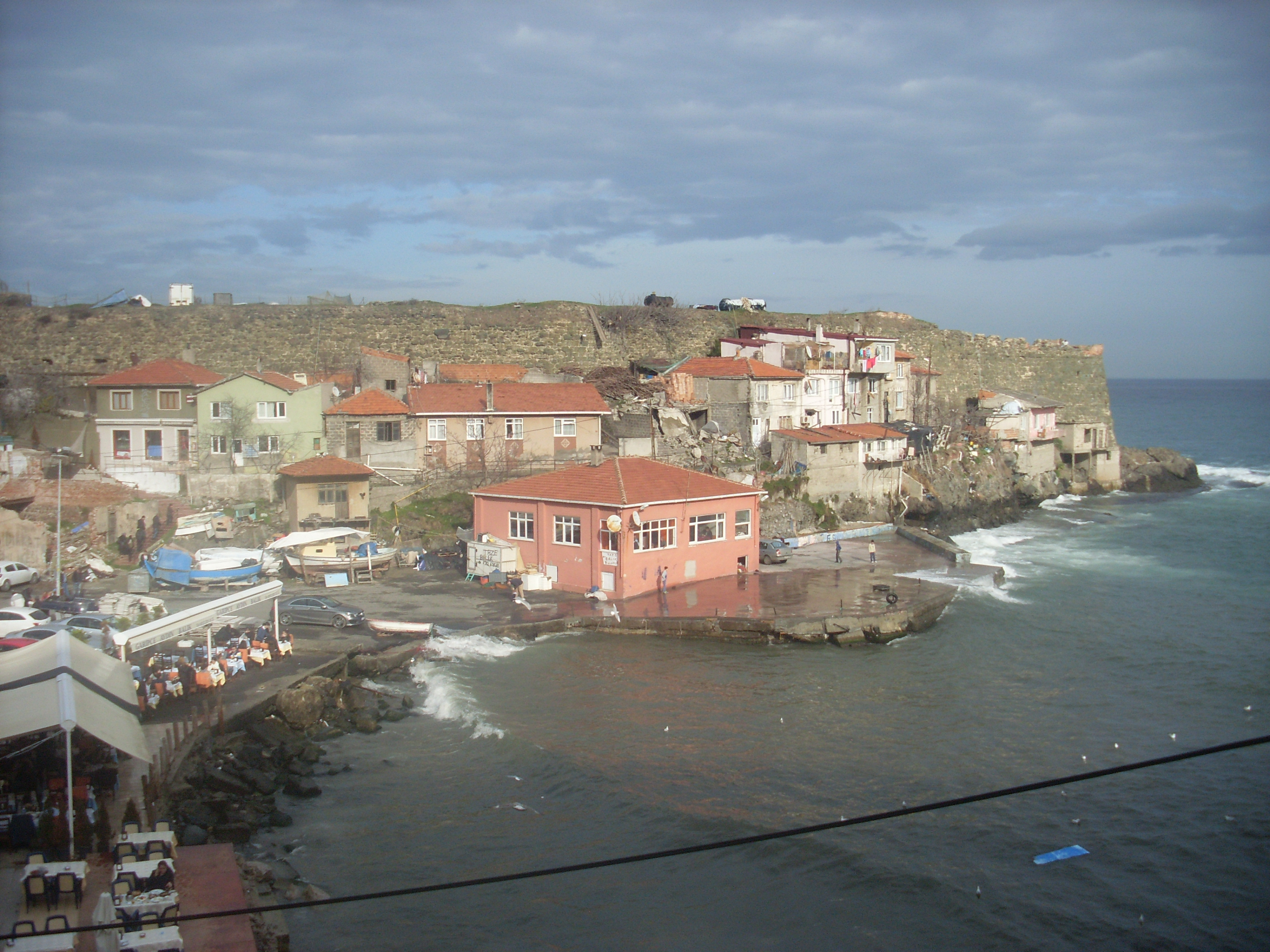 Garipçe Castle p2, Jan 2014